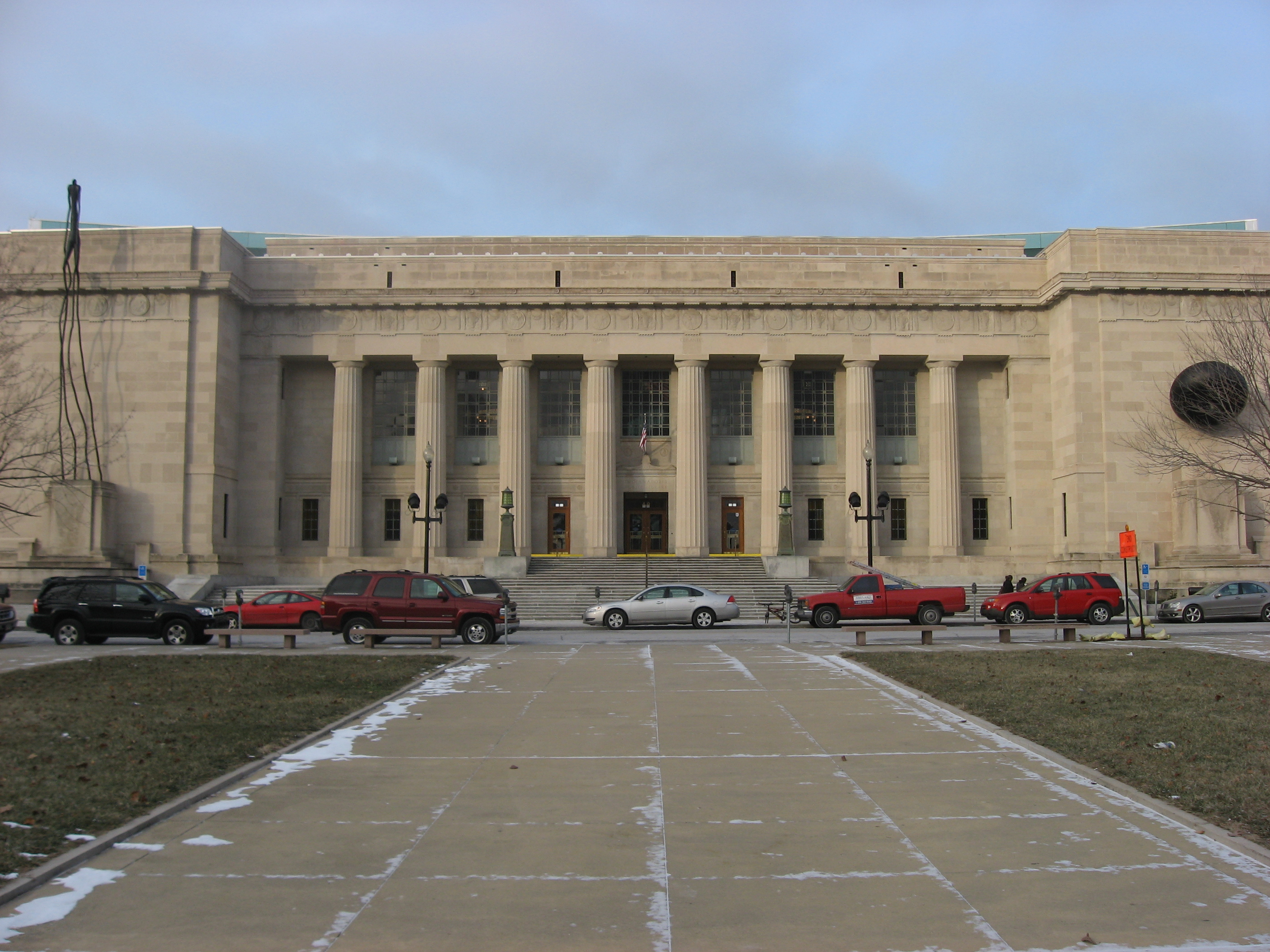 Exterior of the main branch of the Indianapolis-Marion County Public Library, located at 40 E. Saint Clair Street in Indianapolis, Indiana, United States. Built in 1913, the central branch is listed on the National Register of Historic Places as the "Central Library (Indianapolis-Marion County Public Library)".